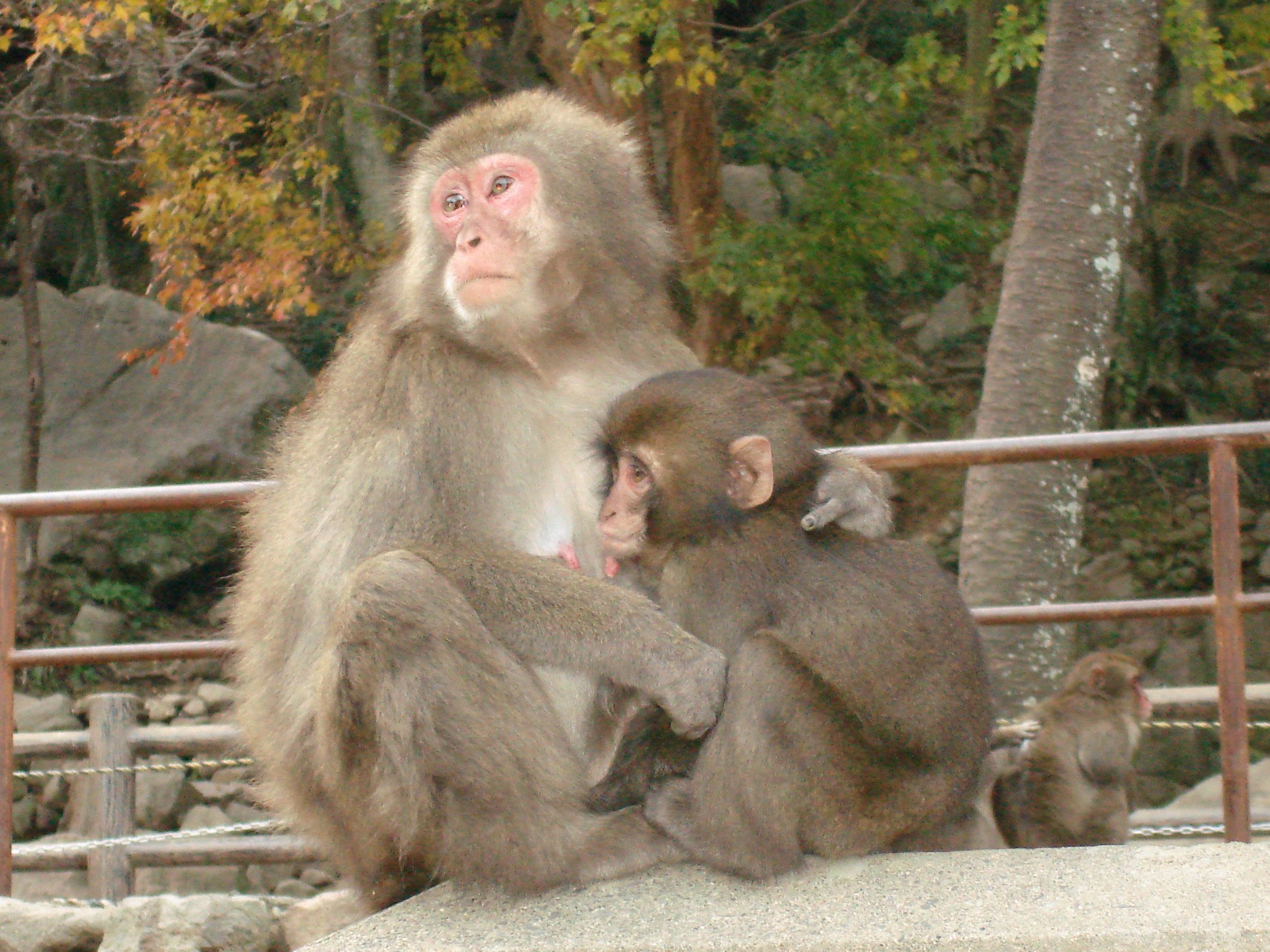 Japanese macaque mother and juvenile.